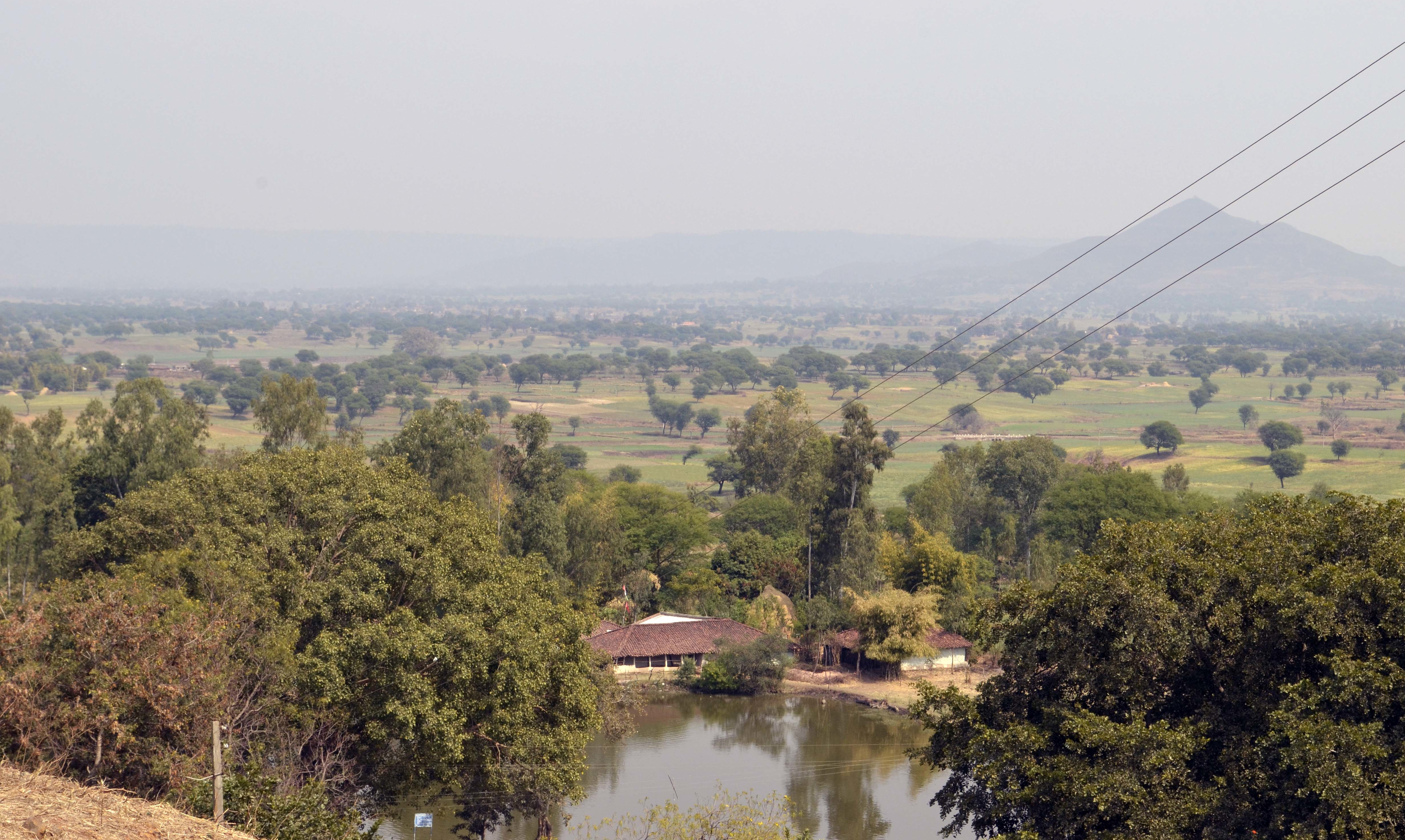 Patangarh today—view from above